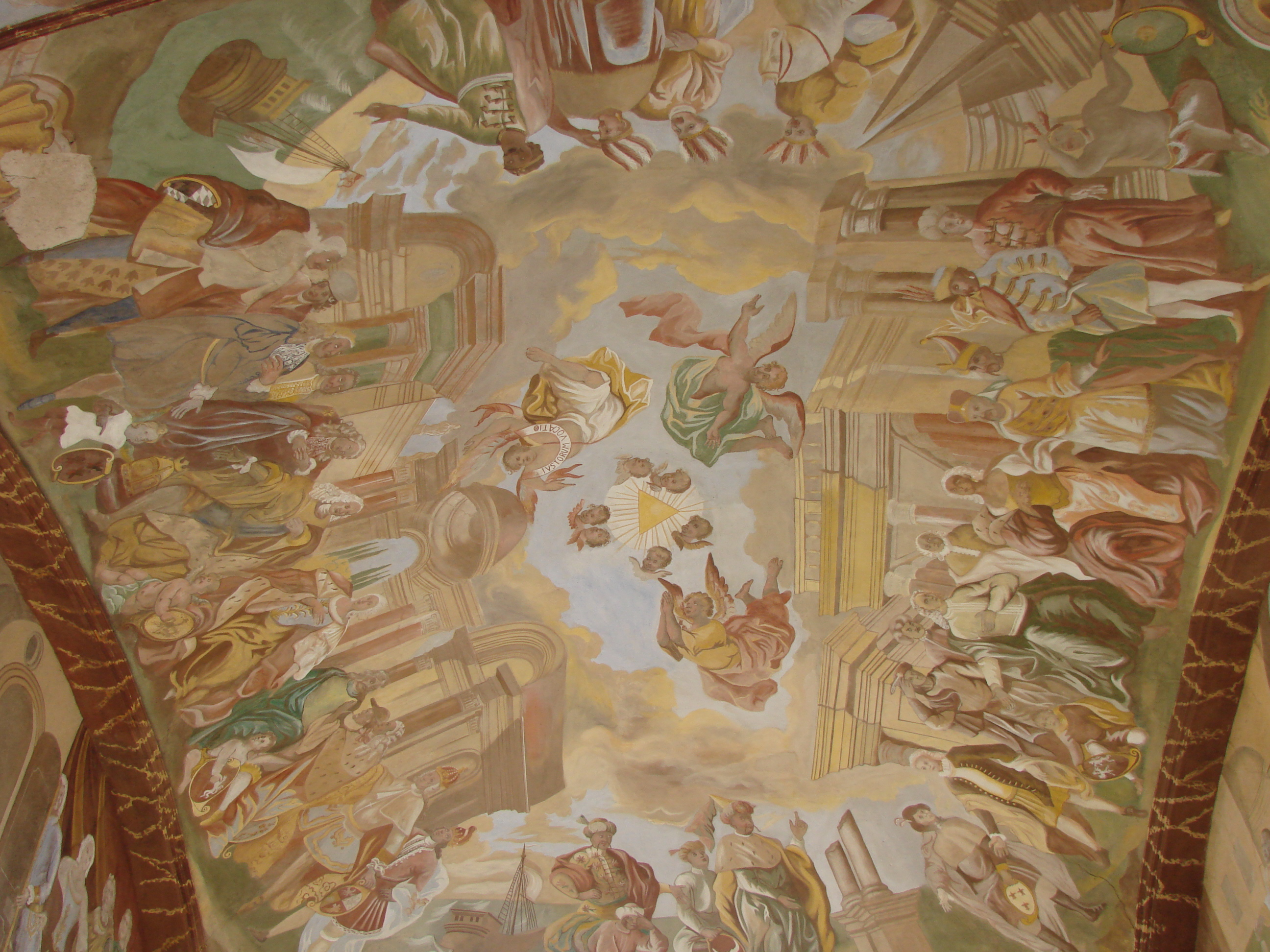 Fresco in Dolní Krupá manor, the village of Dolní Krupá, Havlíčkův Brod District, the Vysočina Region, the Czech Republic.